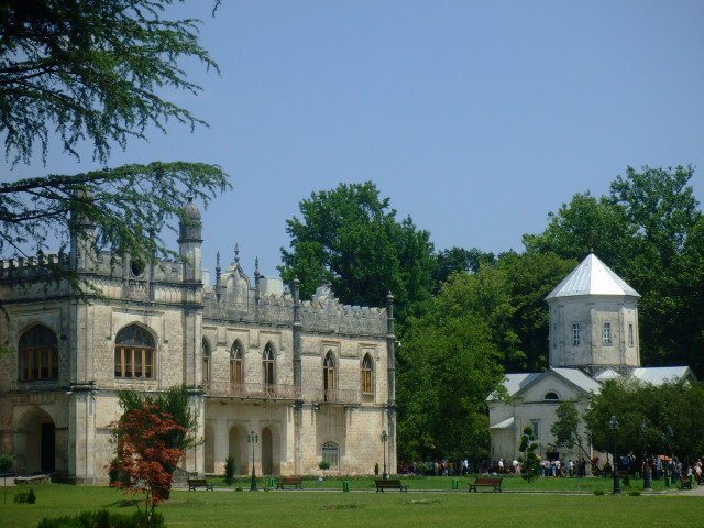 Dadiani Palace and church